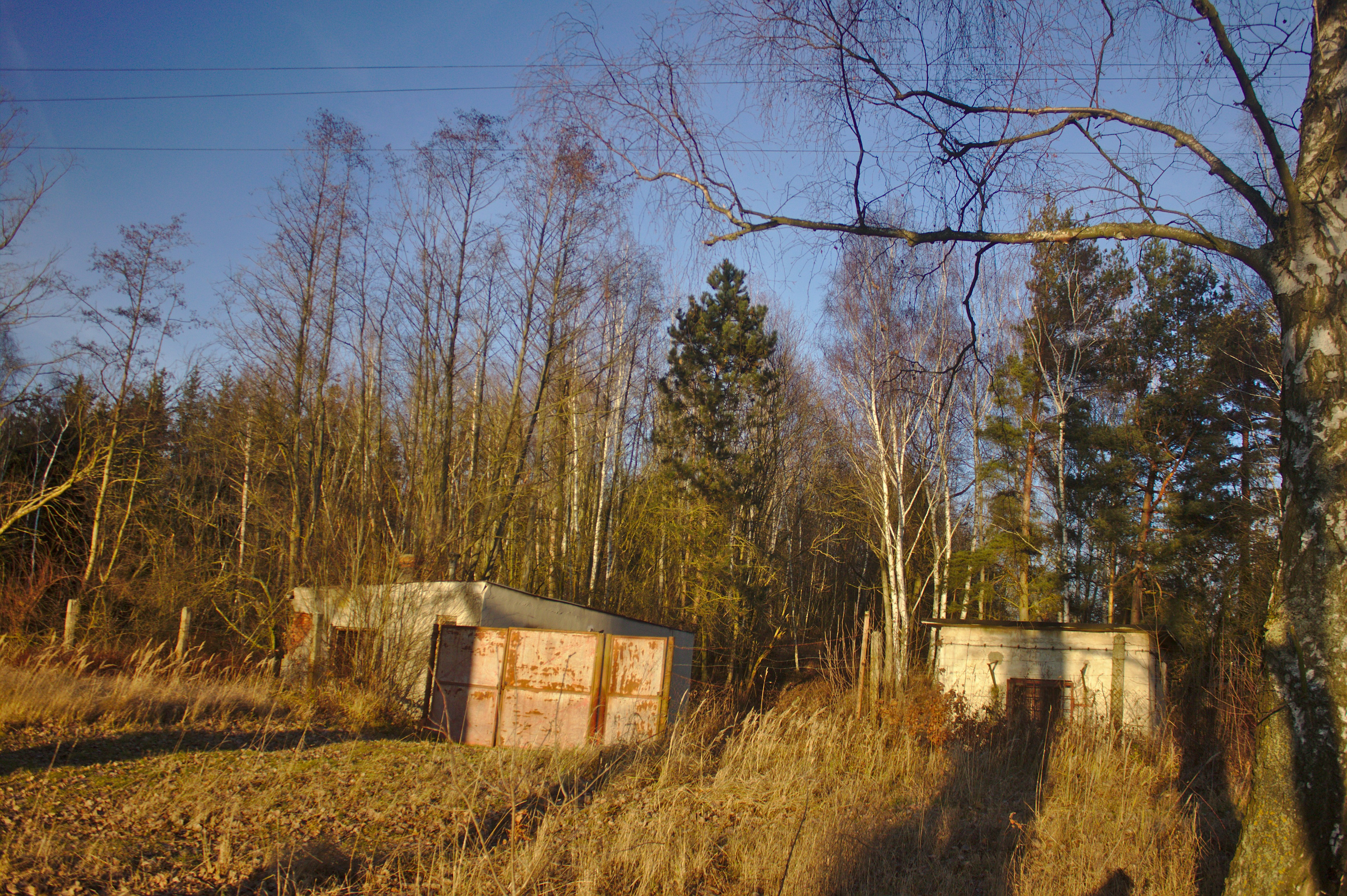 Former Vaňkovka coal mine near Srby, Tuchlovice, Central Bohemia, CZ Project: Fotíme Česko